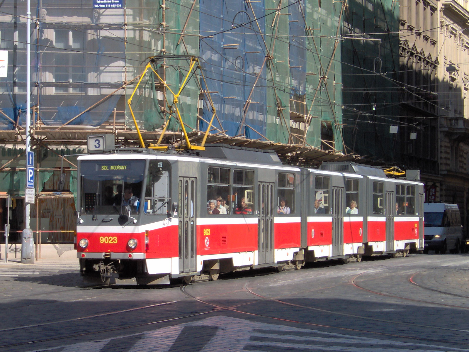 Tatra KT8D5 tram 9032 in Prague, Czech Republic